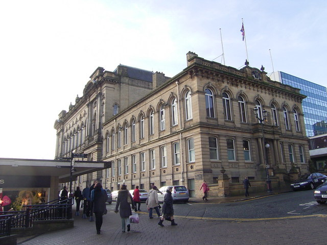 Town Hall and Concert Hall The front building is the Town Hall and the back part is the Concert Hall, when first opened in 1878 the front building was known as The Municipal Offices it wasn't until 1881 when the Concert Hall was completed that the whole building was known as The Town Hall comprising Concert Hall and Magistrates' Court, but no longer used as a Magistrates' Court.